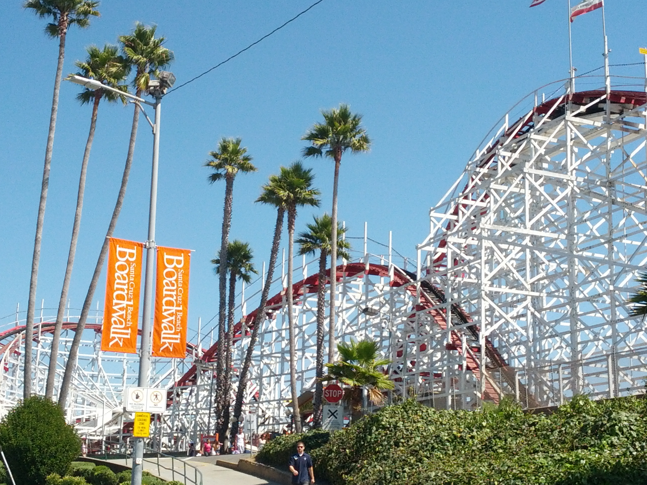 Giant Dipper This photo was uploaded with Wiki Loves Monuments mobile 1.2.1 (Android).